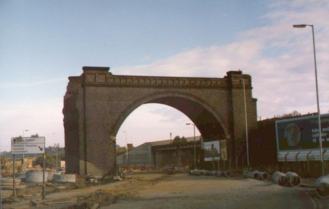 Approaching Horns Bridge on A61. This picture was taken during an earlier re-development of the area in the early 1980's. 605192 605199